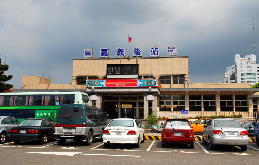 ChiaYi Station is one of the major train station of Taiwan's Western main rail line. This photo shows the rear side of the station, namely "Rear Station". However, unlike Taiwan's most railway stations having same names between front and rear station, ChiaYi Rear Station has its own station name and can be clearly seen on top of the station.